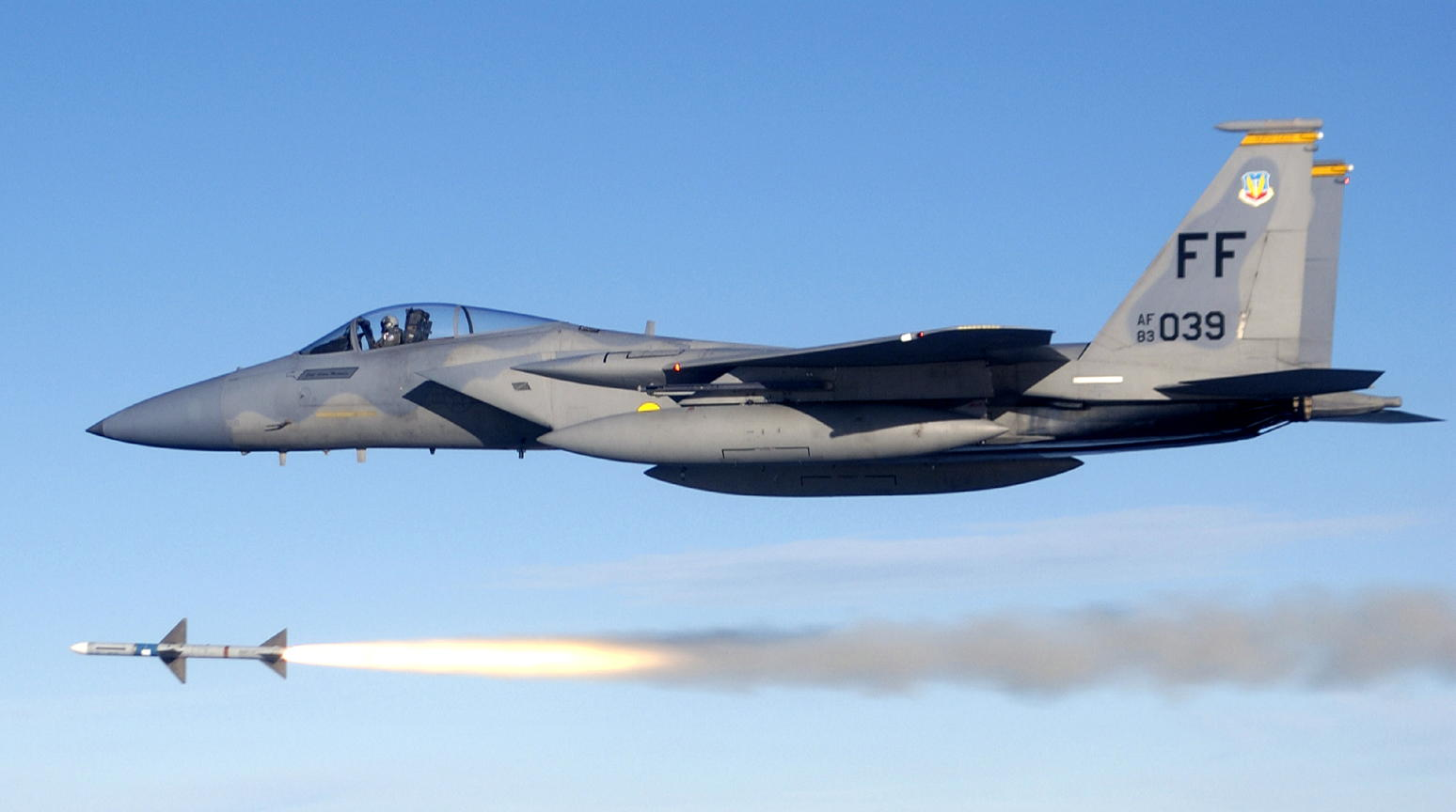 OVER THE GULF OF MEXICO -- First Lt. Charles Schuck fires an AIM-7 Sparrow medium range air-to-air missile from an F-15 Eagle here while supporting a Combat Archer air-to-air weapons system evaluation program mission. He and other Airmen of the en:71st Fighter Squadron deployed from Langley Air Force Base, Va., to Tyndall AFB, Fla., to support the program. (U.S. Air Force photo by Master Sgt. Michael Ammons)